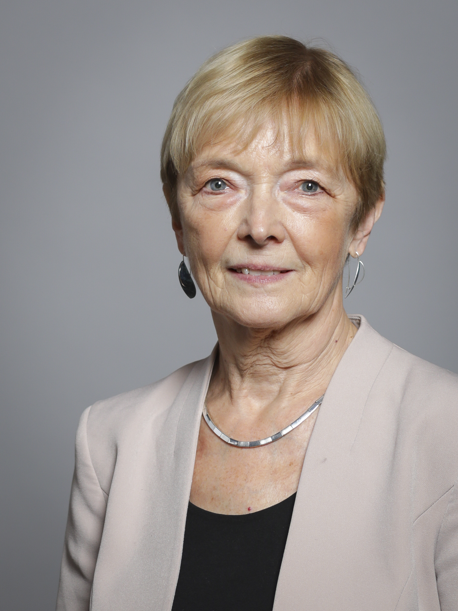 Official portrait of Baroness Wheeler 3×4 portrait of Baroness Wheeler